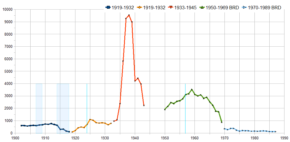 Chart of prosecutions under § 175 in years 1902-1987; up to 1943 with bestialityEvents: 1907-1909: Harden-Eulenburg Affair; 1914-1918 WW1; 1924: Fritz Haarmann; 1957: Bundesverfassungsgericht